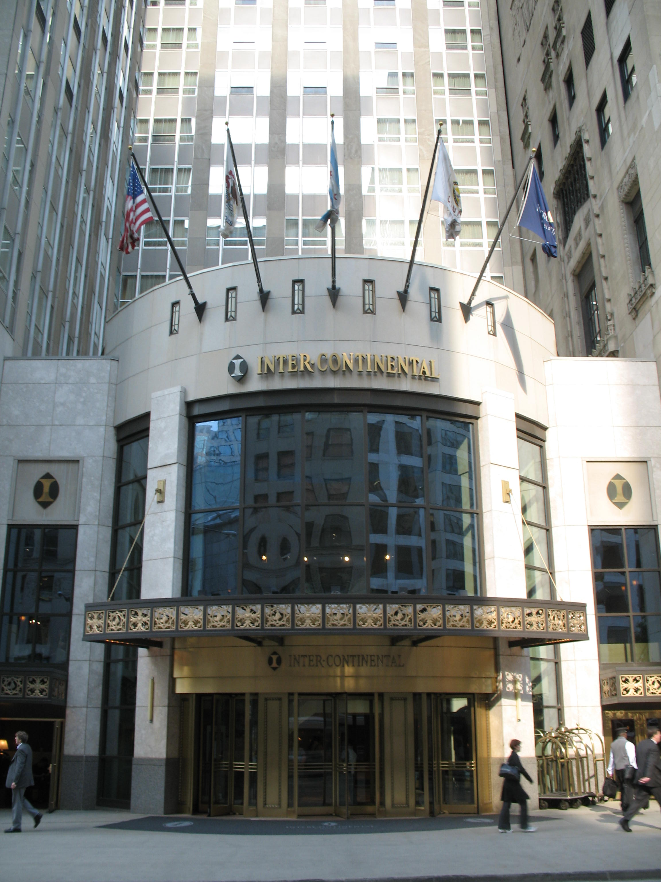 Entrance to the Hotel InterContinental Chicago.